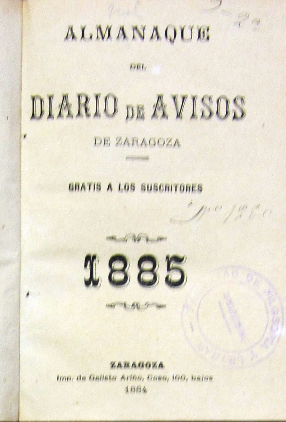 Spanish Journal